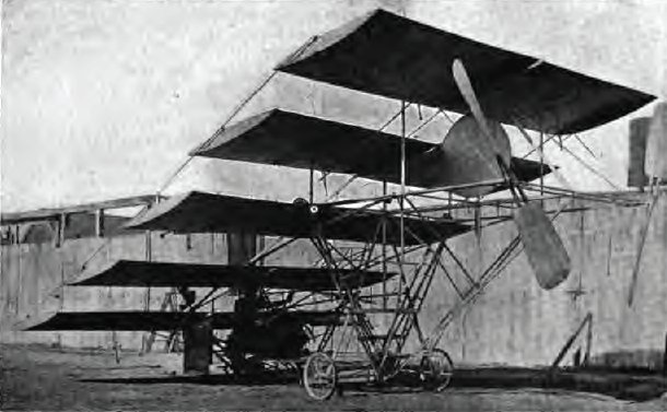 Photograph of J.S. Zerbe's "Multi-Plane" which was shown and crashed at the 1910 Los Angeles International Air Meet